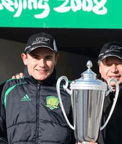 davide rigon